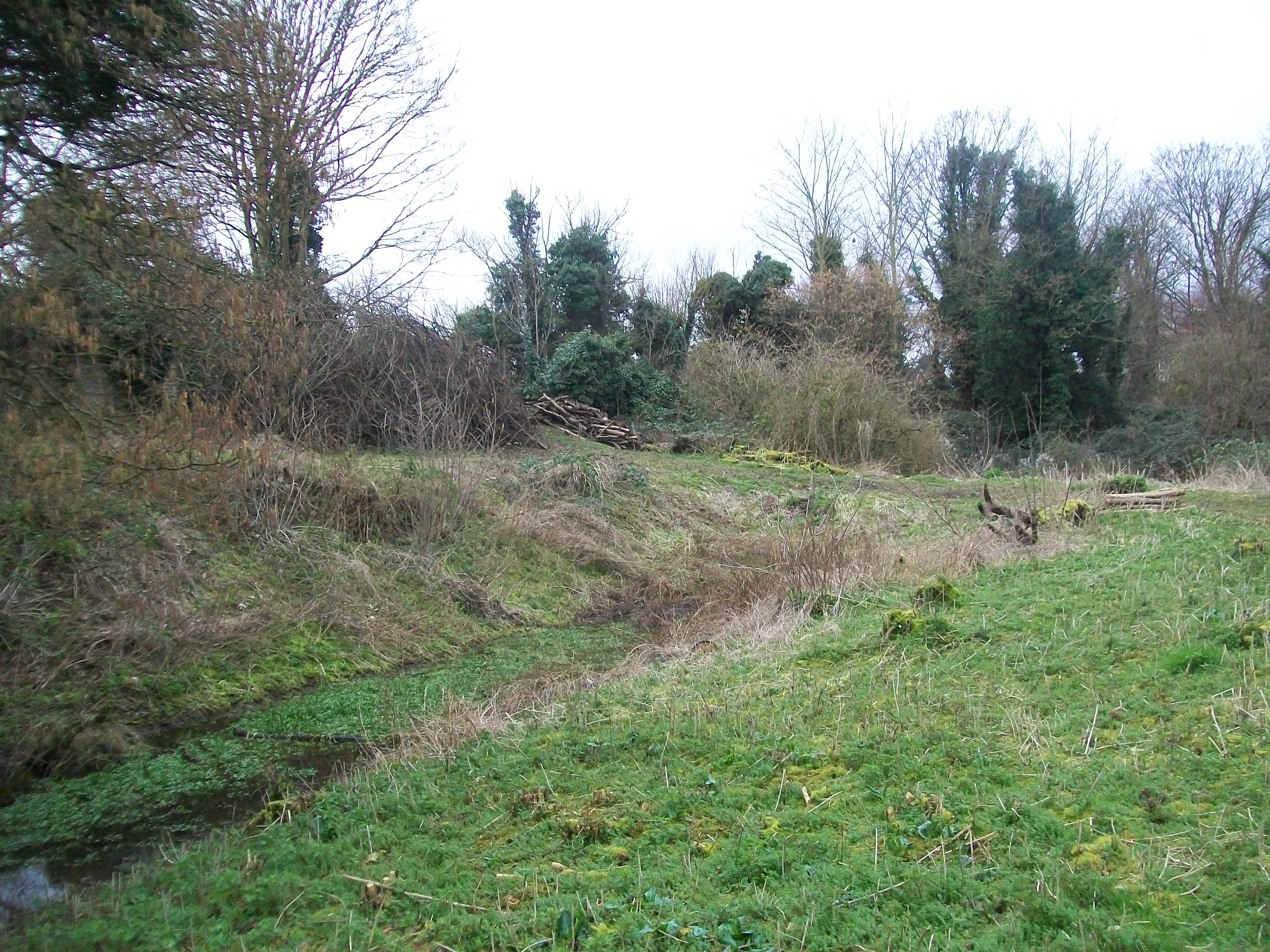 Looking to the causewayed entrance at Stratton Park Moated Enclosure, Biggleswade, Bedfordshire in the United Kingdom.